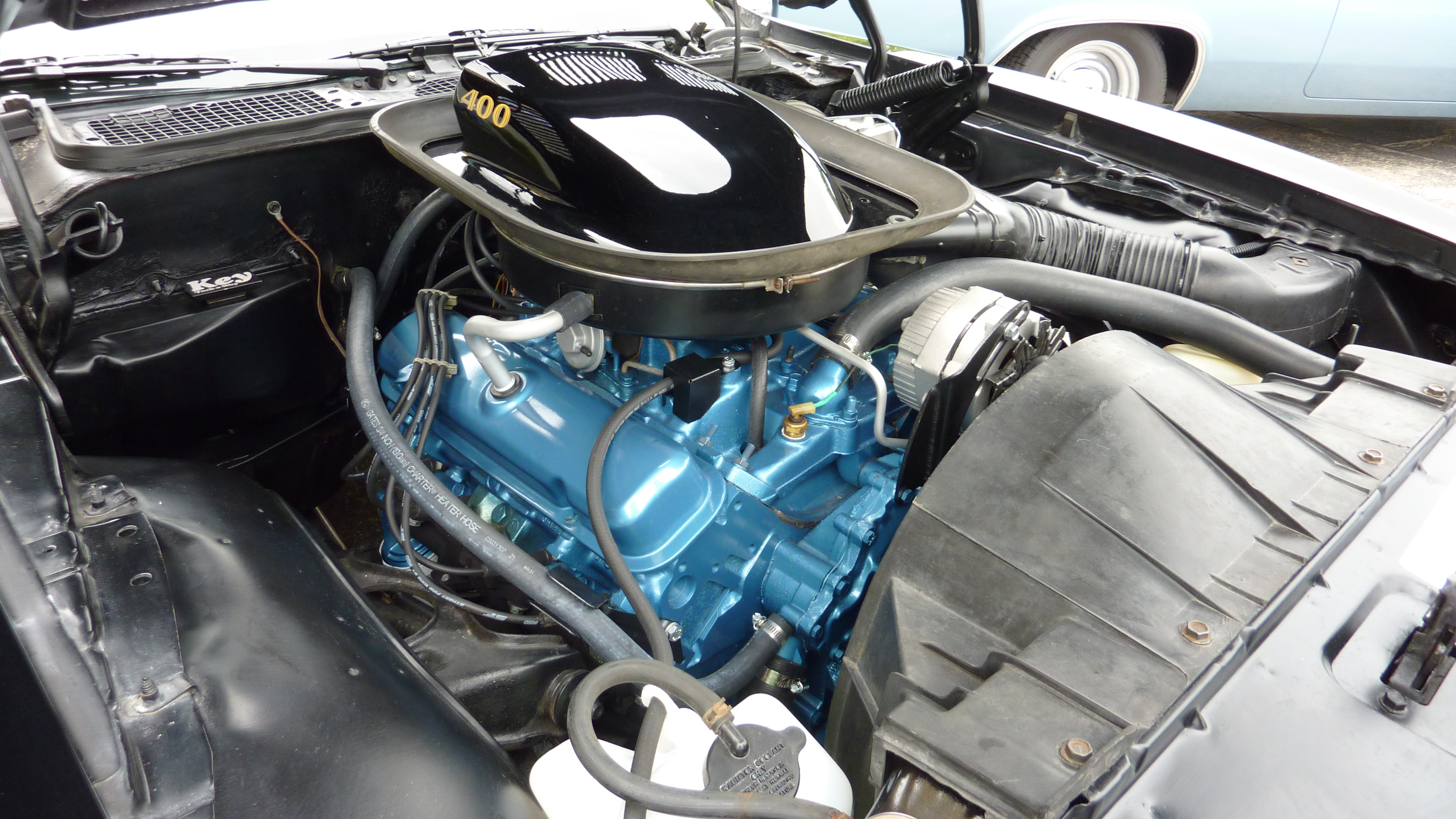 400ci Pontiac